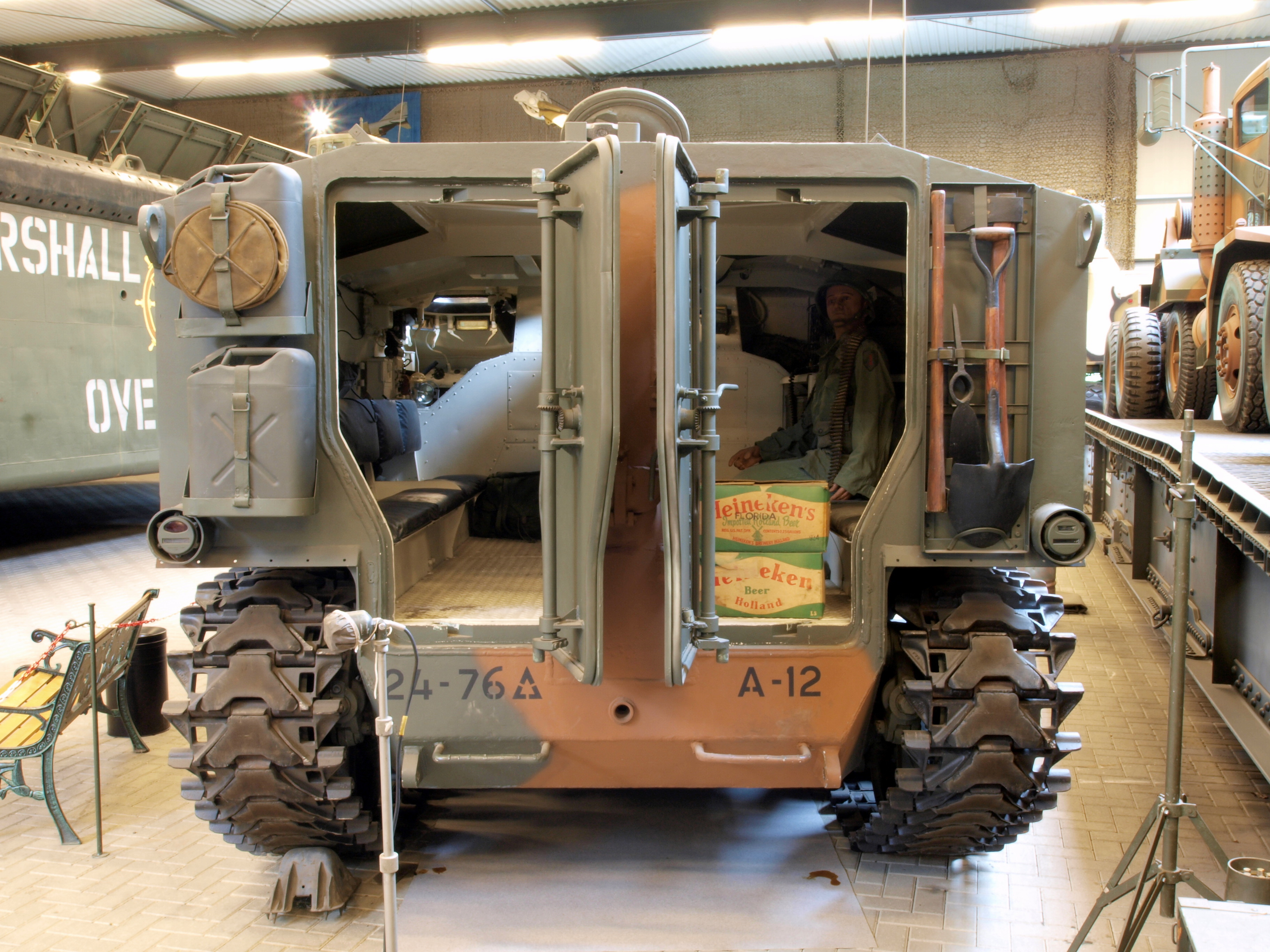 Photographed at the Marshallmuseum - Liberty Park - Oorlogsmuseum Overloon, The Netherlands.